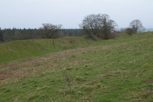 Croft Ambrey. Croft Ambrey is an Iron-Age hillfort dating back to around 1000BC. It is situated about 1000ft above sea level on a wooded hill top near Croft castle.